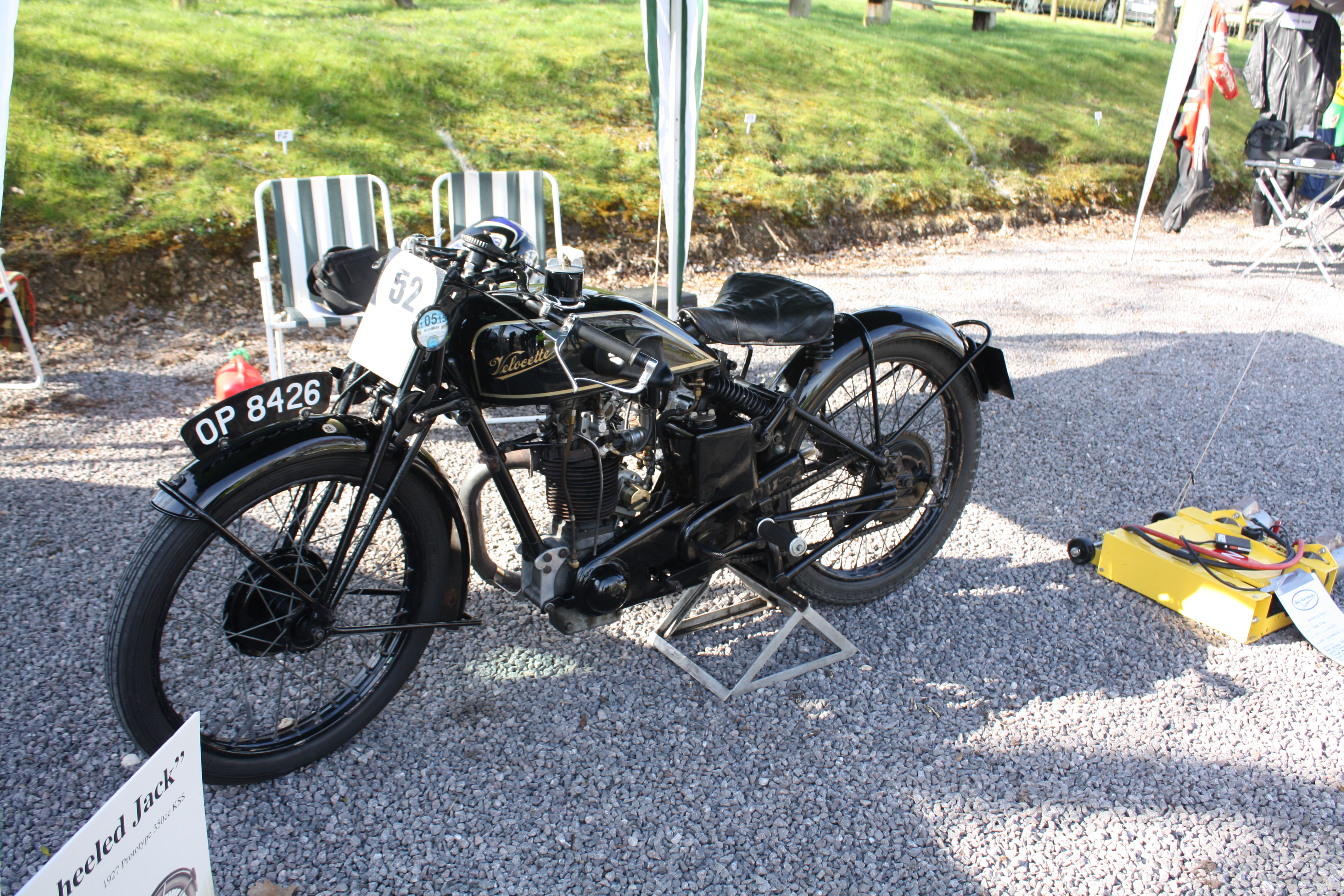 Spring-heeled Jack 350cc Velocette 1927